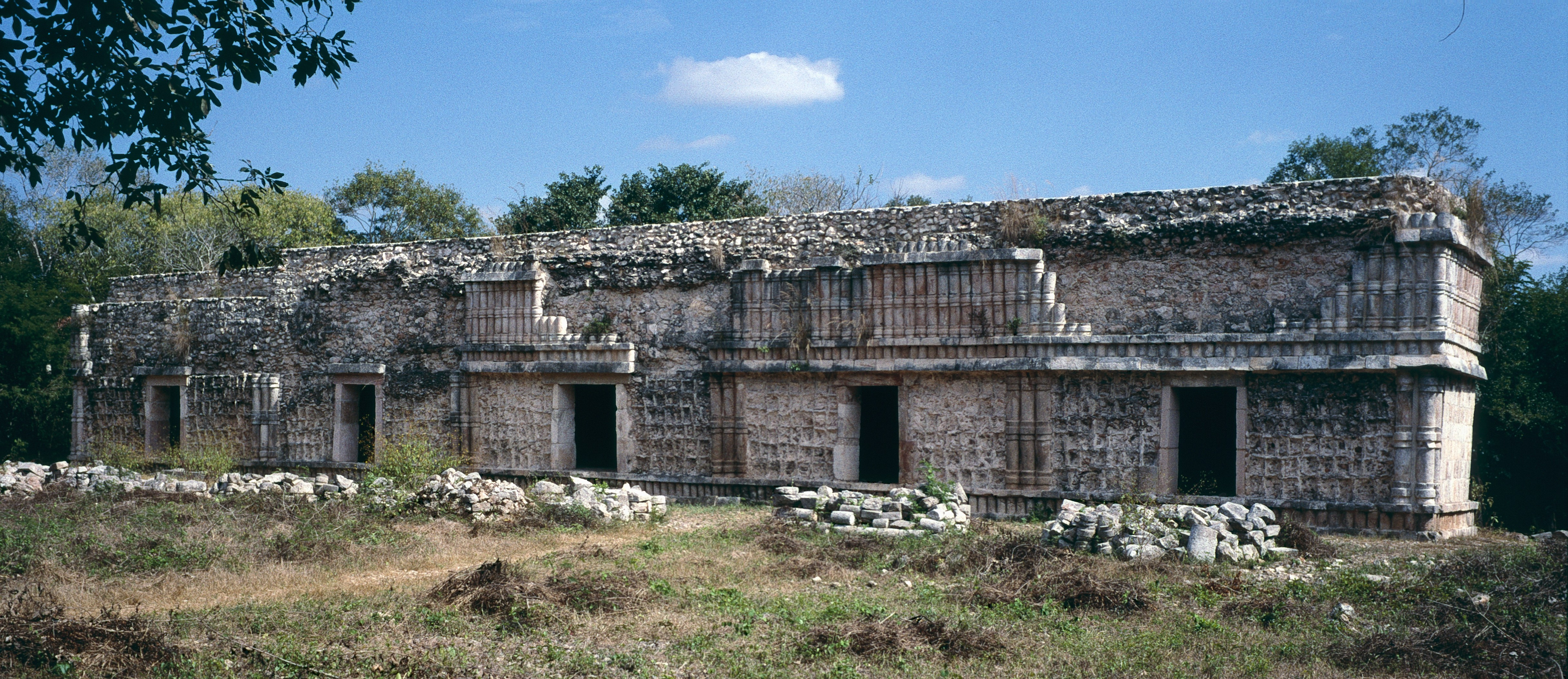 Kabah,Yucatan, Mexico: building 1C1, West facade